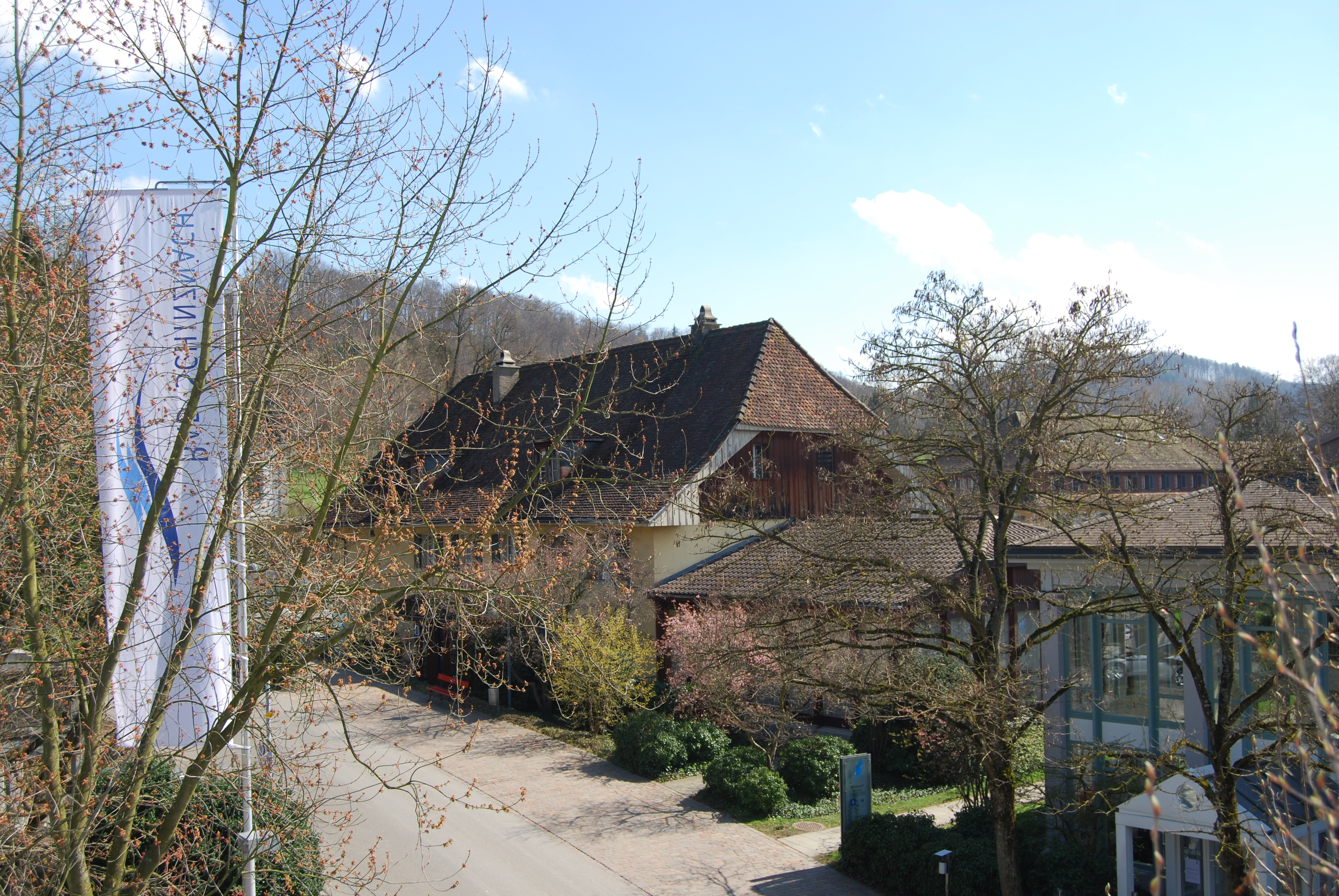 Spa Park at Schinznach-Bad, canton of Aargau, SwitzerlandEsperanto: Kuracparko en Schinznach-Bad, Kantono Argovio, Svislando